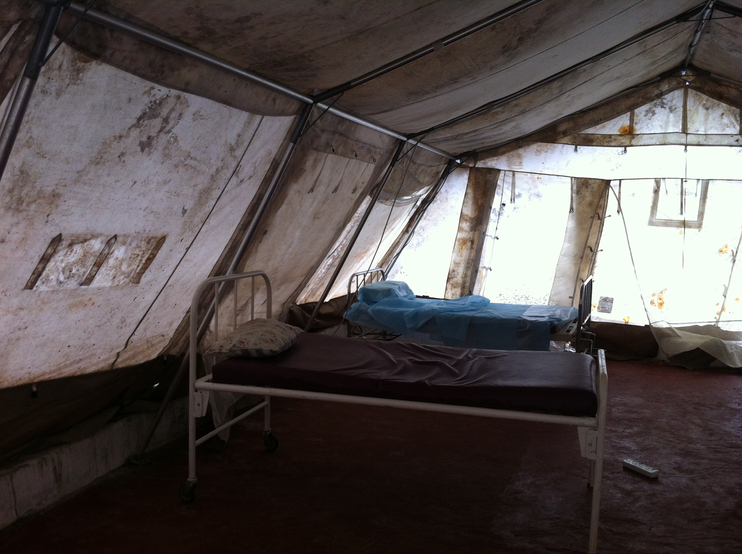 New Ebola isolation center opening in Freetown, Sierra Leone next week. This will almost double the capacity for isolation that is currently available in the city. Photographer: Bex Levine For more information on Ebola and what CDC is doing, please visit